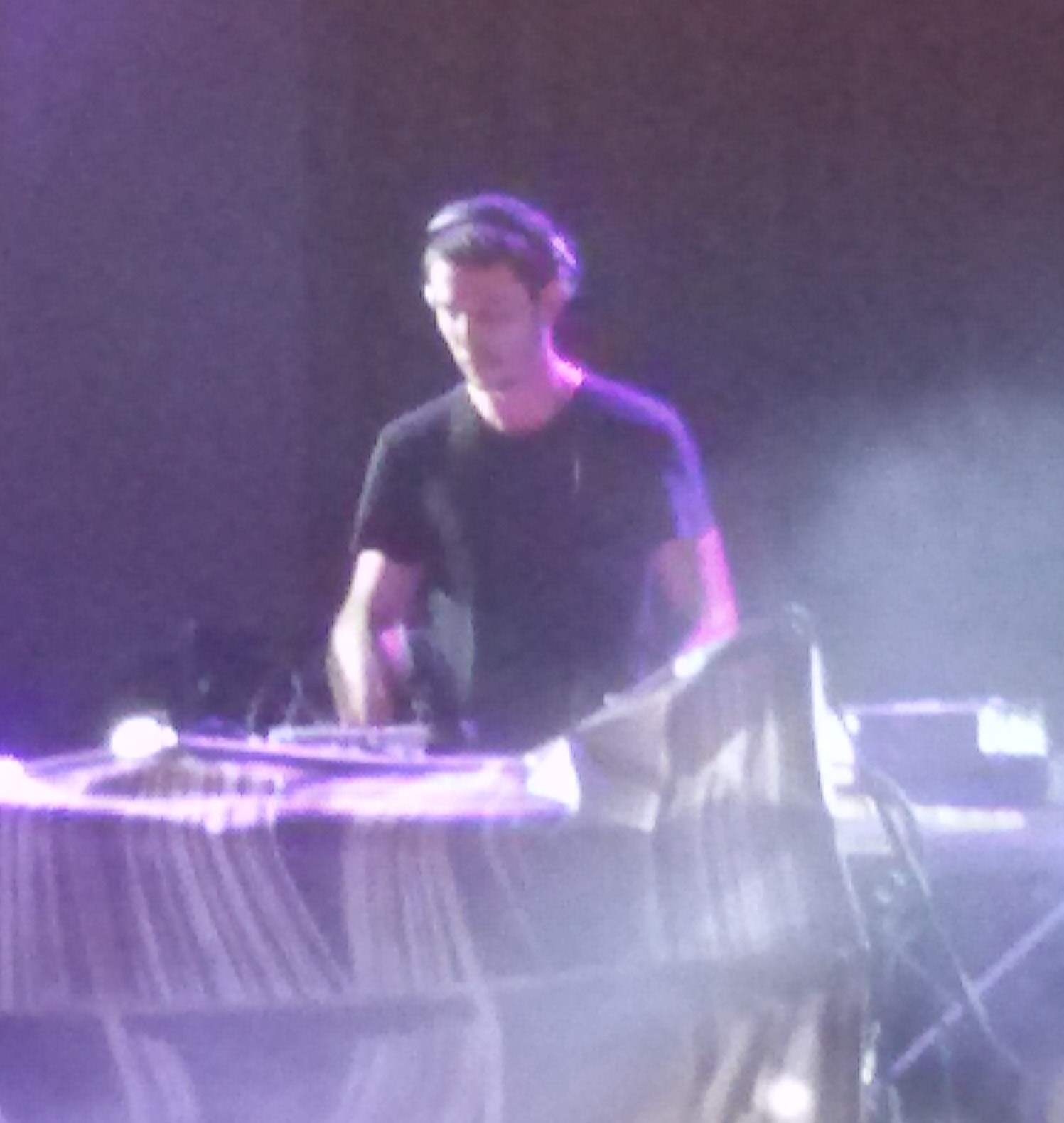 The Avener in Piazza Santo Spirito in Florence